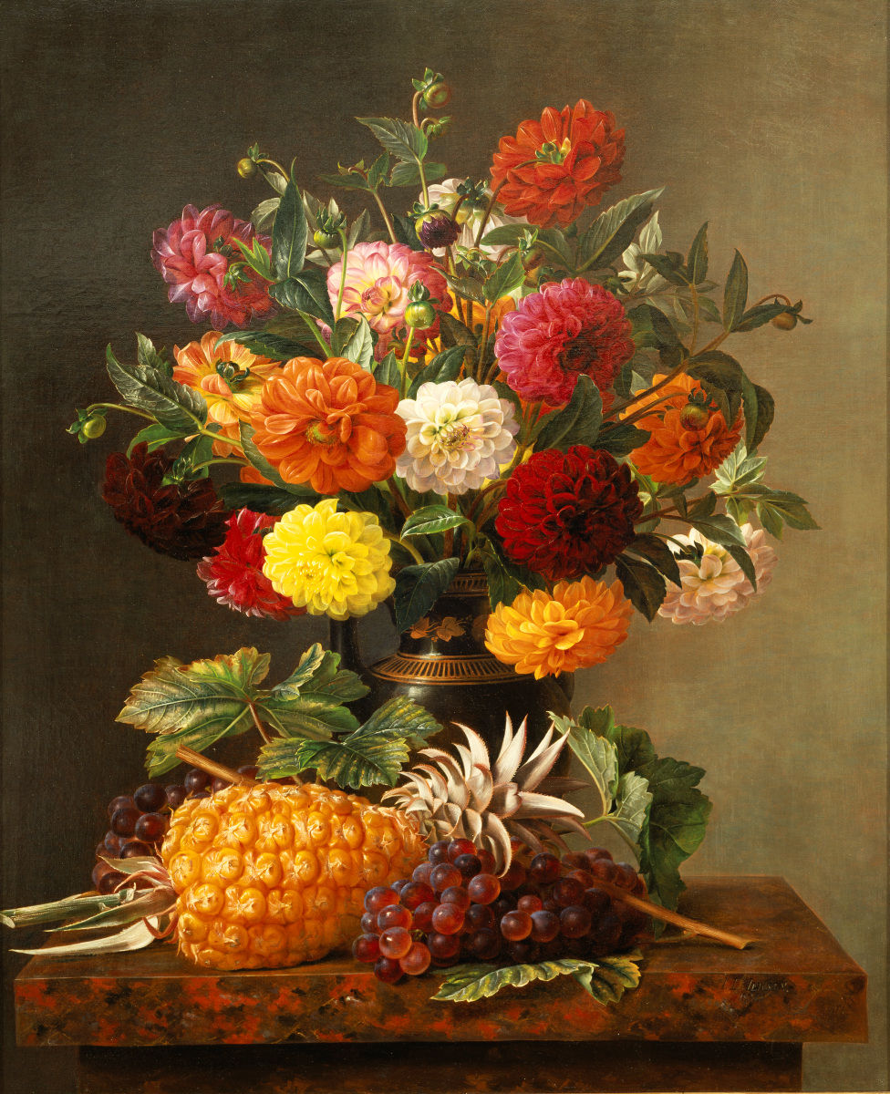 Still Life of Dahlias with Pineapple and Grapes by Johan Laurentz Jensen, 1835 In the collection of the Birmingham Museum of Art